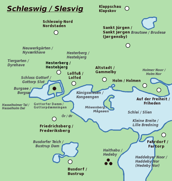 Bilingual Map of Schleswig / Slesvig by (German / Danish)